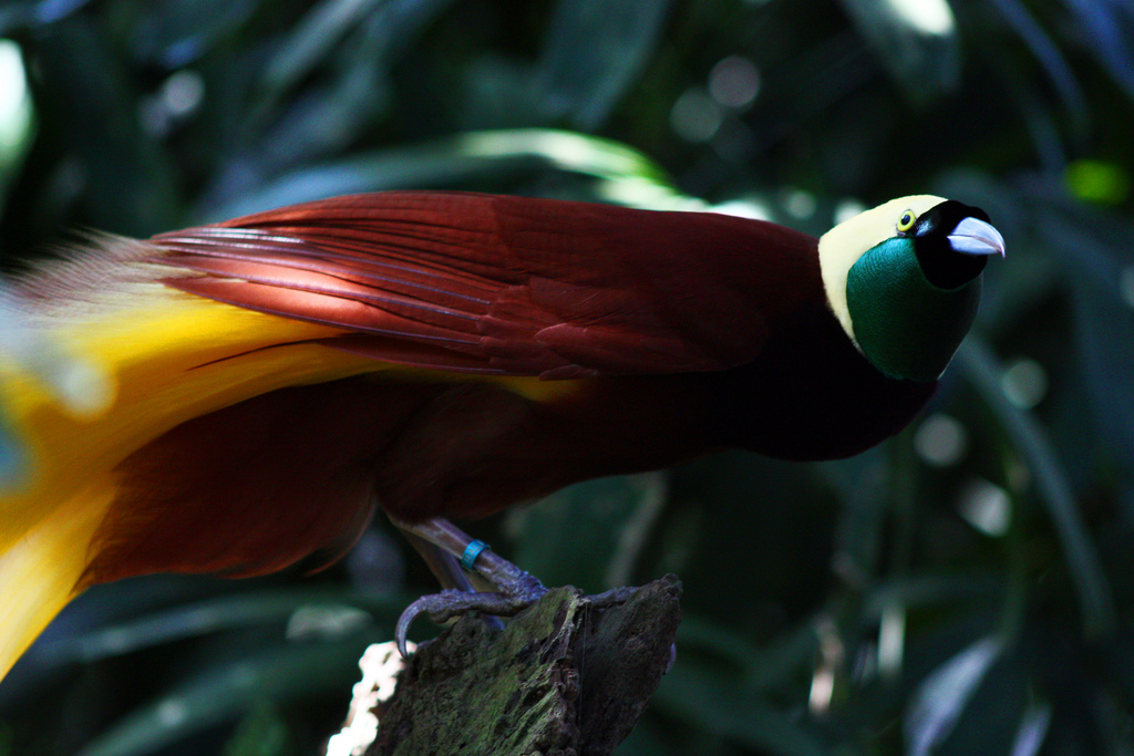 Greater Bird of Paradise (Paradisaea apoda) at Bali Bird Park. Male bird of paradise.